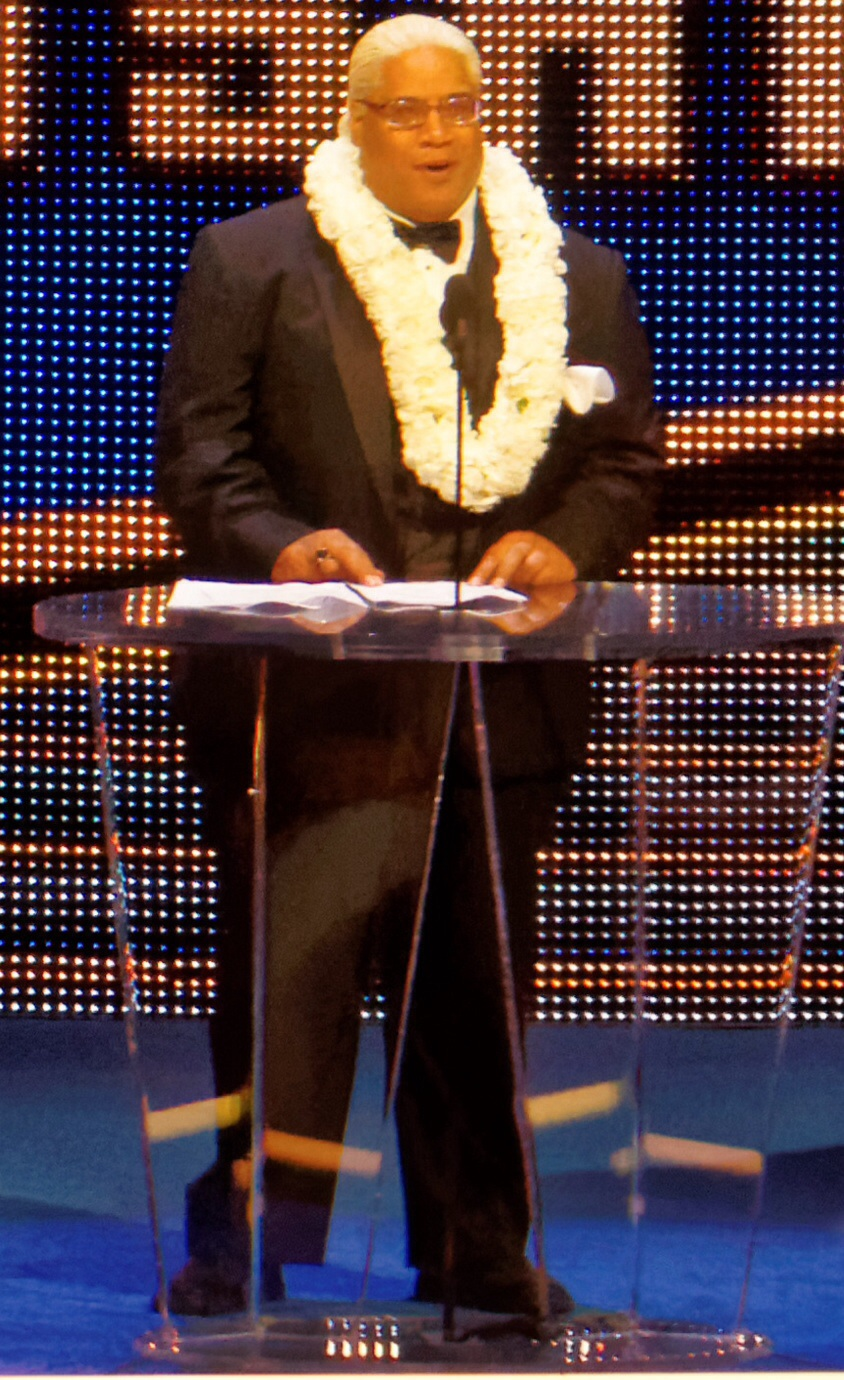 WWE Hall Of Fame 2015